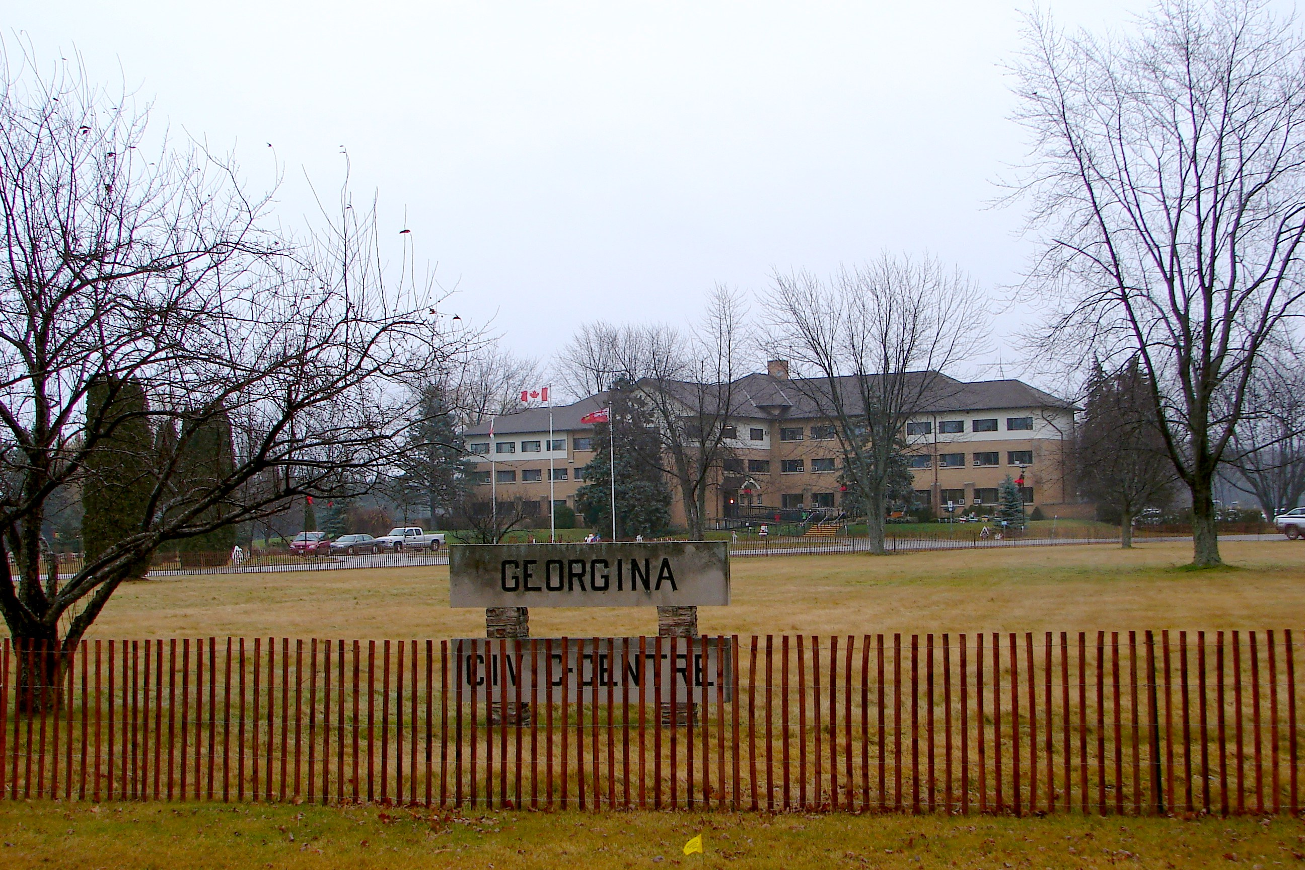 Civic Centre of Georgina, Ontario, Canada